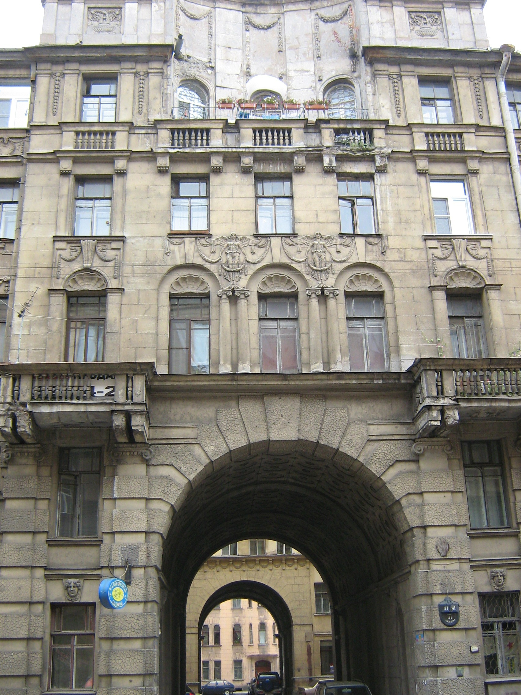 41, Shirokaya (Lenin) street, Saint-Petersburg, Russia. House of Alexander Lishnevsky, his own project (with participation of A. Turkovsky), 1912-1913.